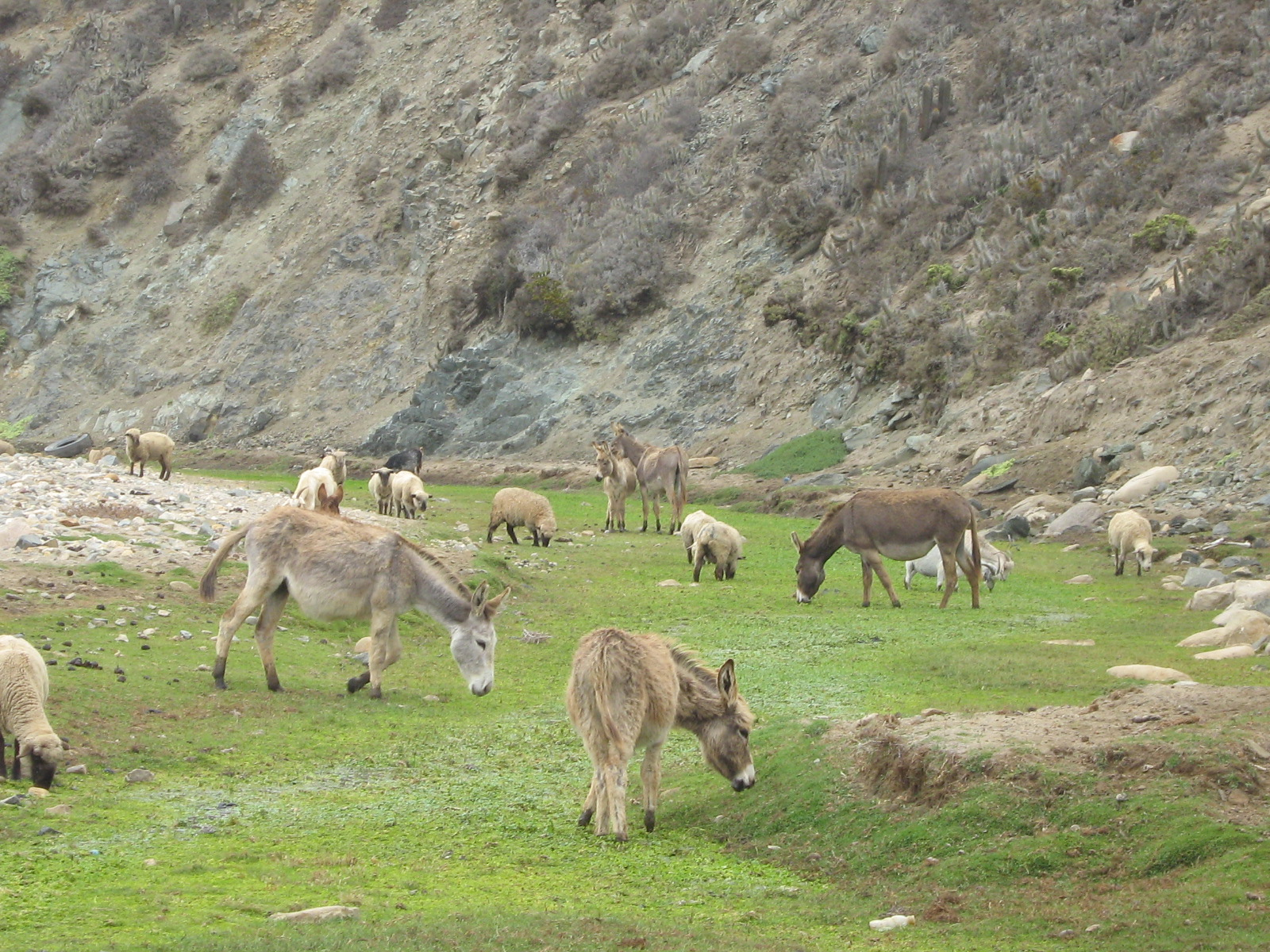 Typical animals in Cebada